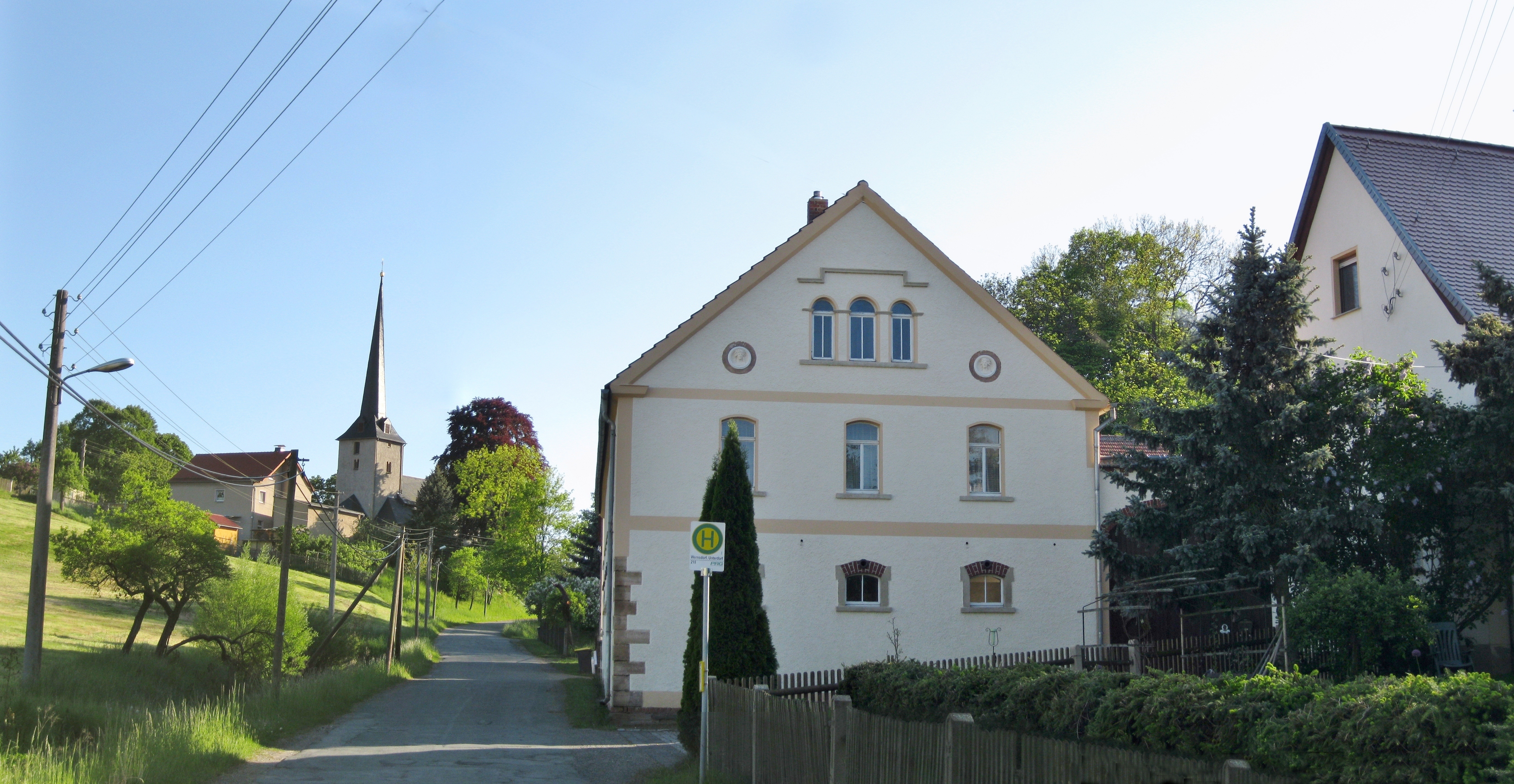 Church in Wernsdorf